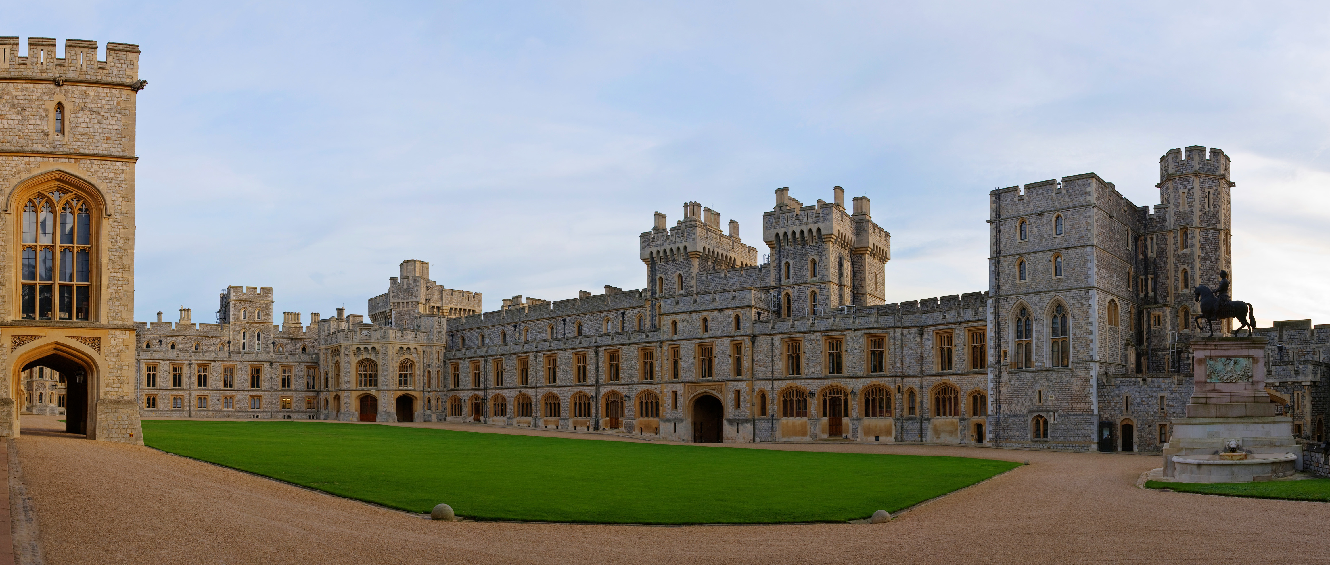 Windsor Castle Upper Ward Quadrangle. Taken by myself with a Canon 5D and 24-105mm f/4L IS lens. This is a six segment panorama stitched with PTGui.